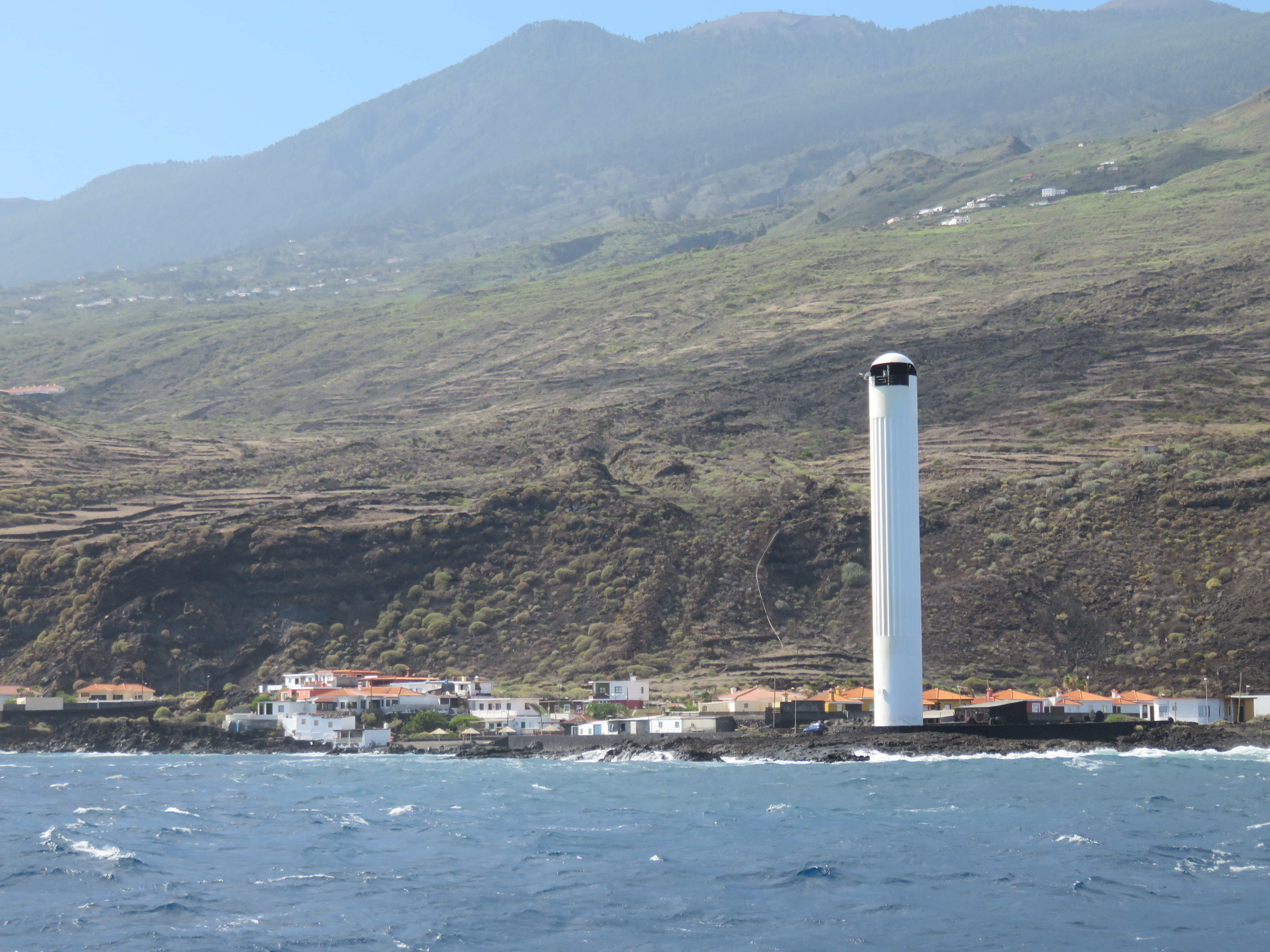 Faro de Arenas Blancas, Villa de Mazo